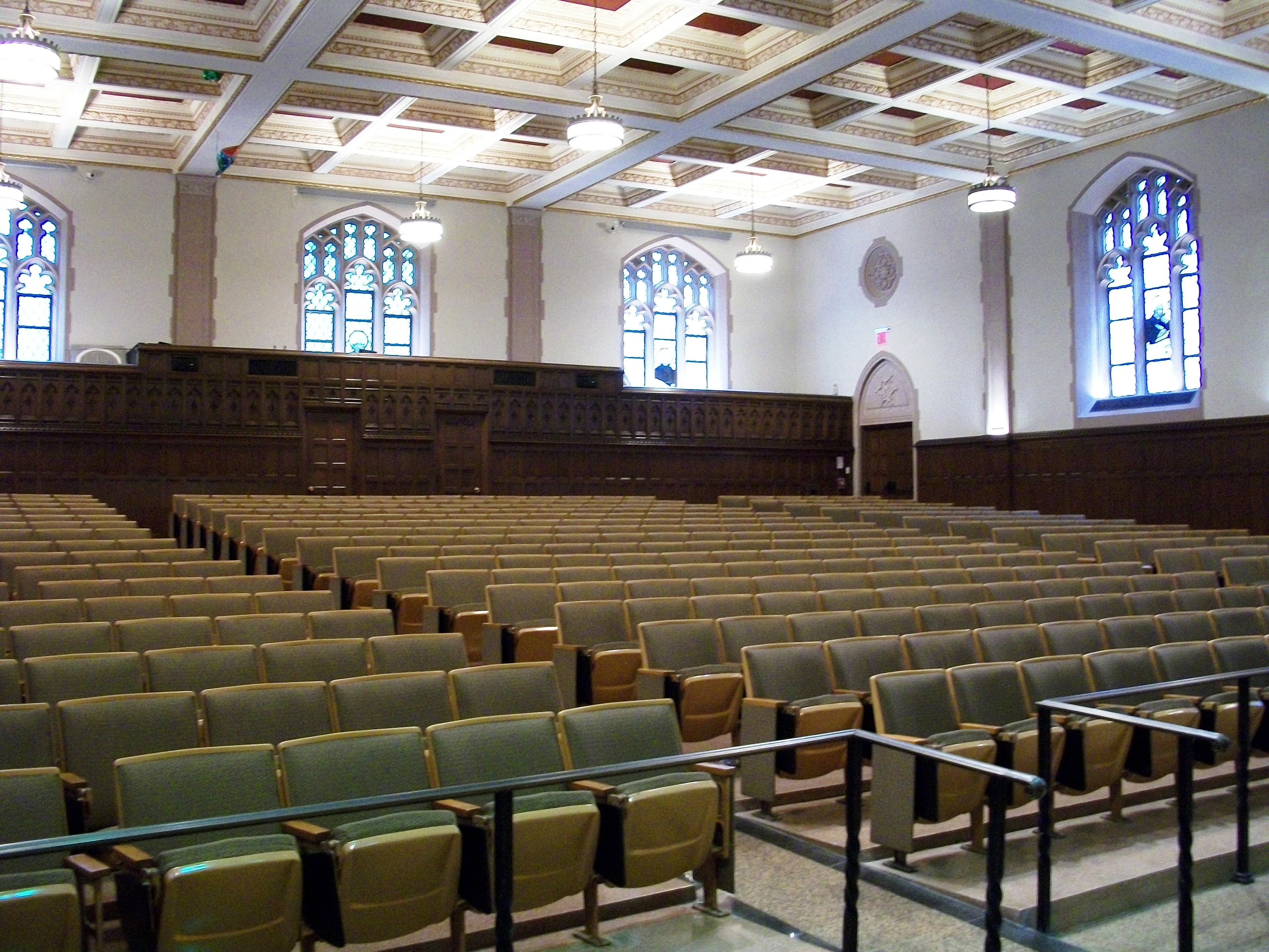 A lecture hall and auditorium at the Rose Hill campus.